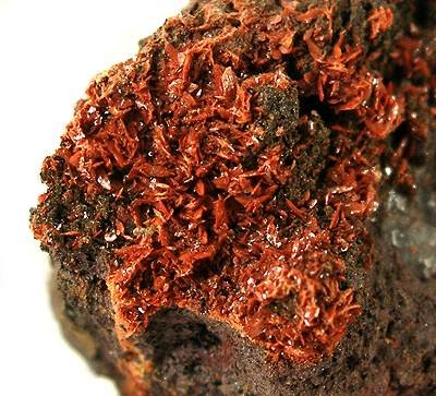 Mawbyite Locality: Tsumeb Mine (Tsumcorp Mine), Tsumeb, Otjikoto (Oshikoto) Region, Namibia (Locality at ) Size: 1.9 x 1.5 x 0.9 cm. This rare species is the monoclinic dimorph of Carminite. It is very rare from Tsumeb. Confirmed by X-Ray diffraction and microprobe. Ex. Dr. Terry Seward and Willy Israel Collections.